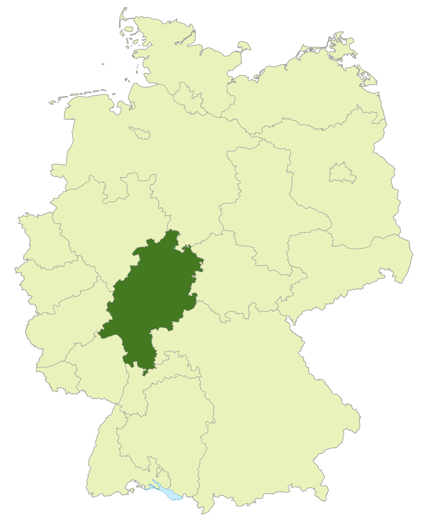 Map of regional soccer association Hessen, Germany